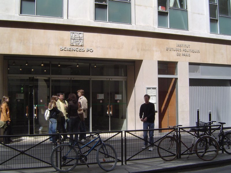 The Sciences-Po library